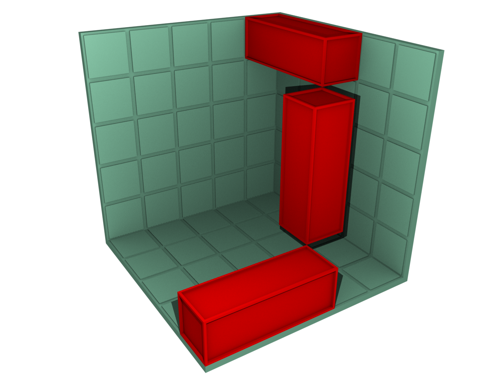 An image for Conway puzzle, to replace the ASCII art.